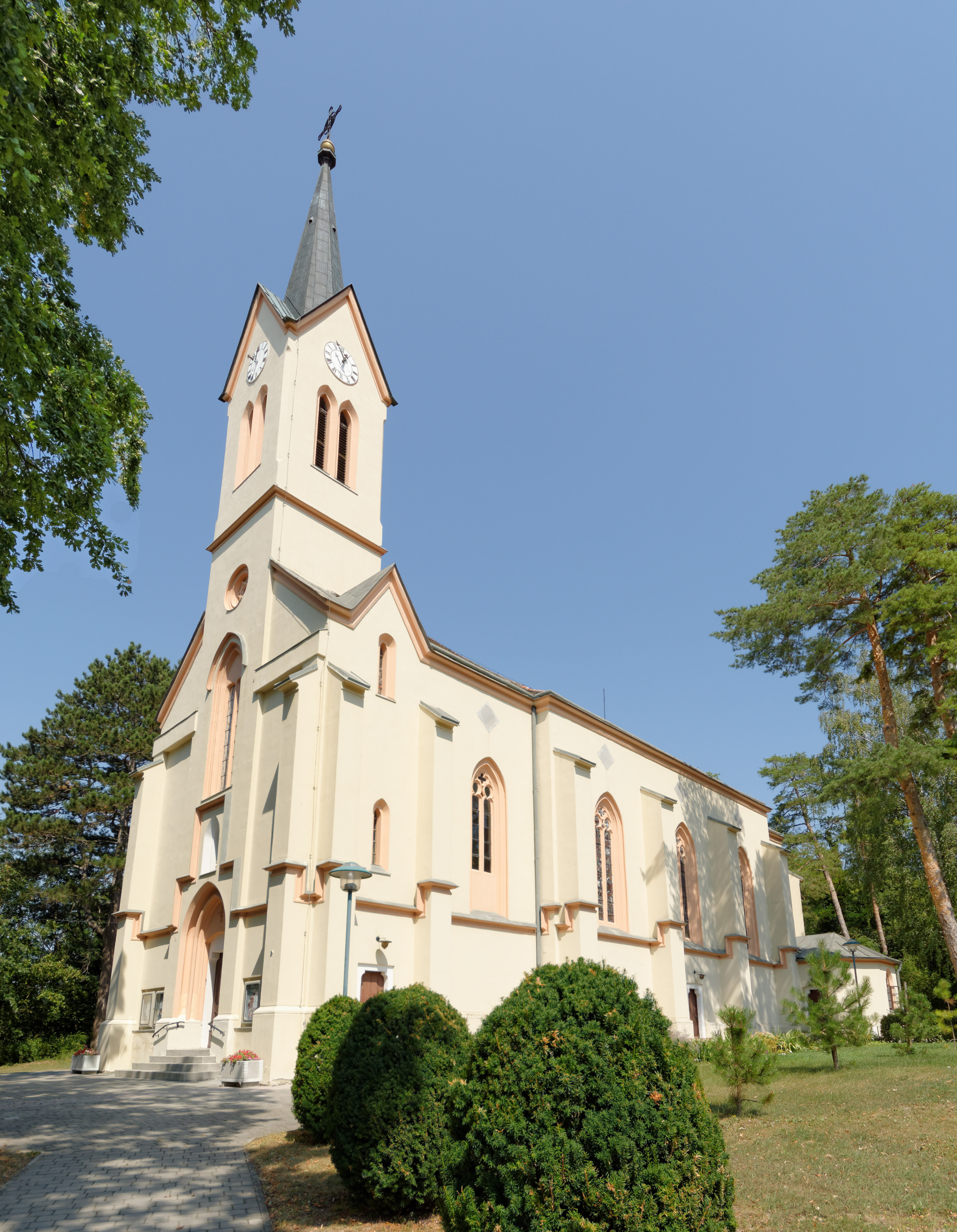 Catholic parish church at Wultendorf, Municipality Staatz, Lower Austria, Austria